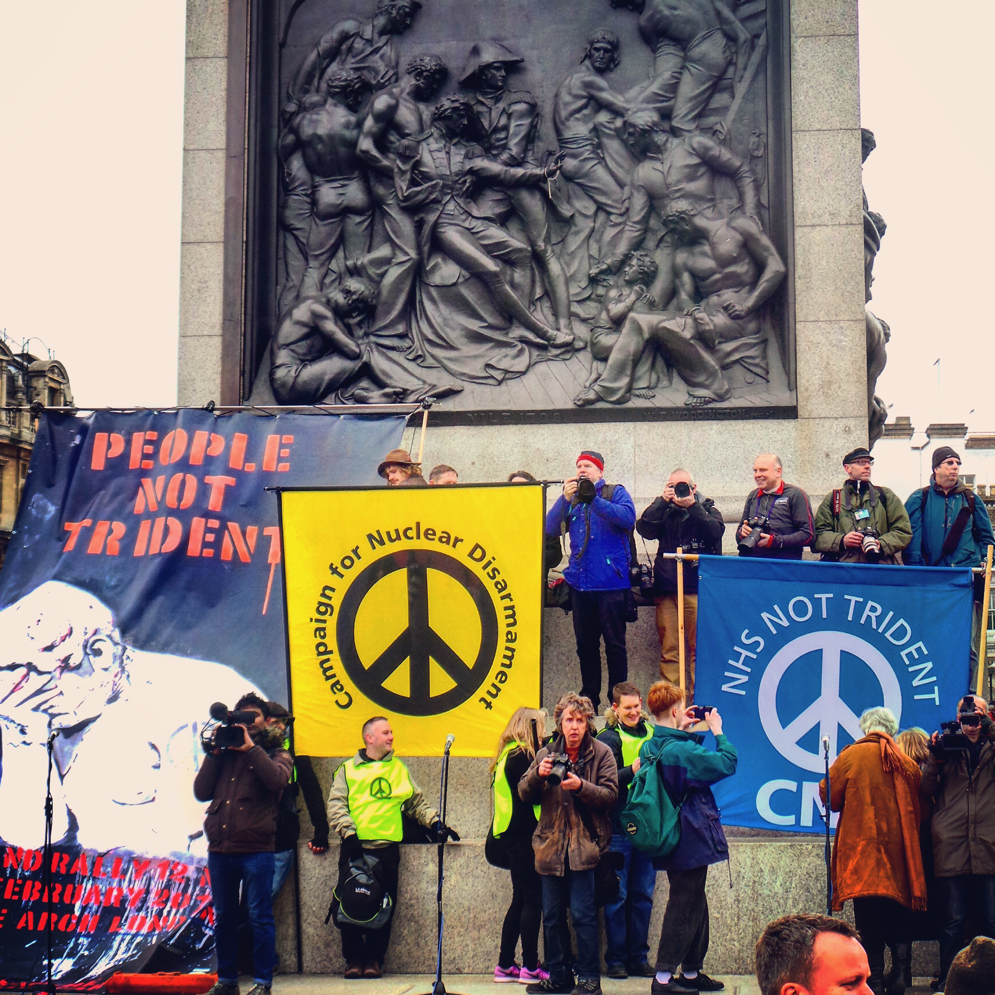 The CND, still active since the 1950s.